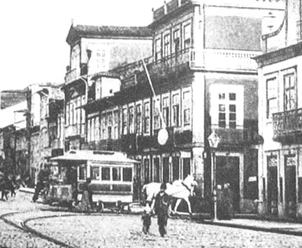 A horse tram on Praça do Almada, Póvoa de Varzim, Portugal